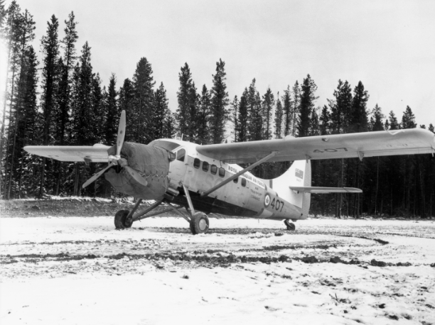 403 Squadron cold weather survival practice at -40 Fahrenheit